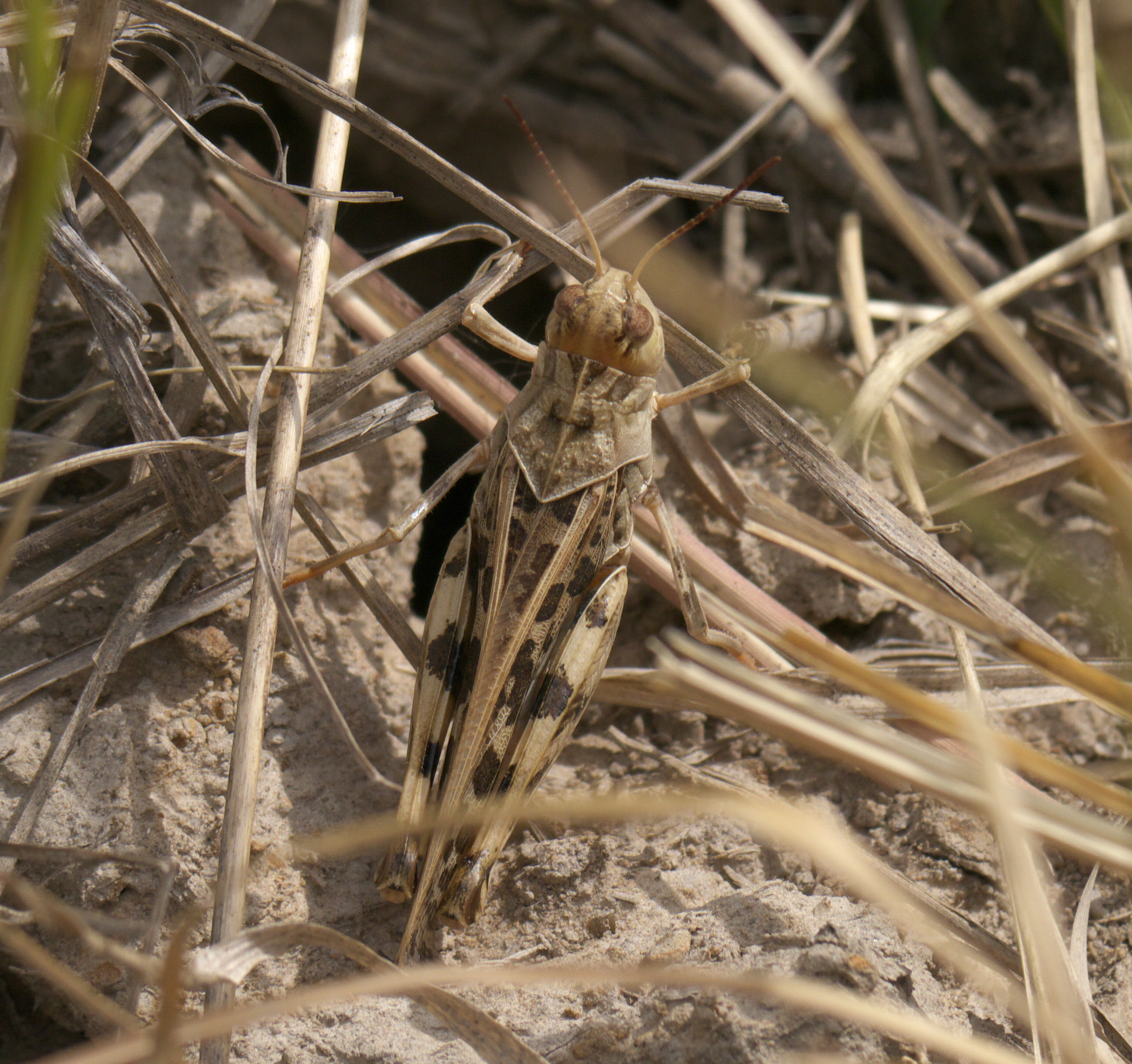 Hippiscus ocelote, Wrinkled Grasshopper, ID Confidence: 87